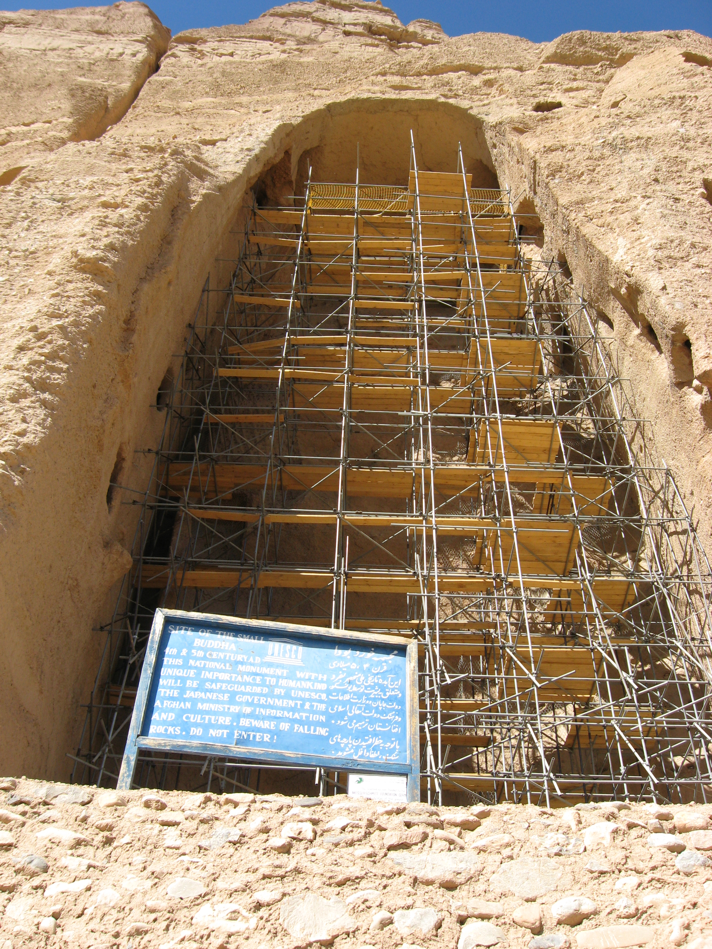 Scaffolding for reconstructing the Buddha of Bamiyan.